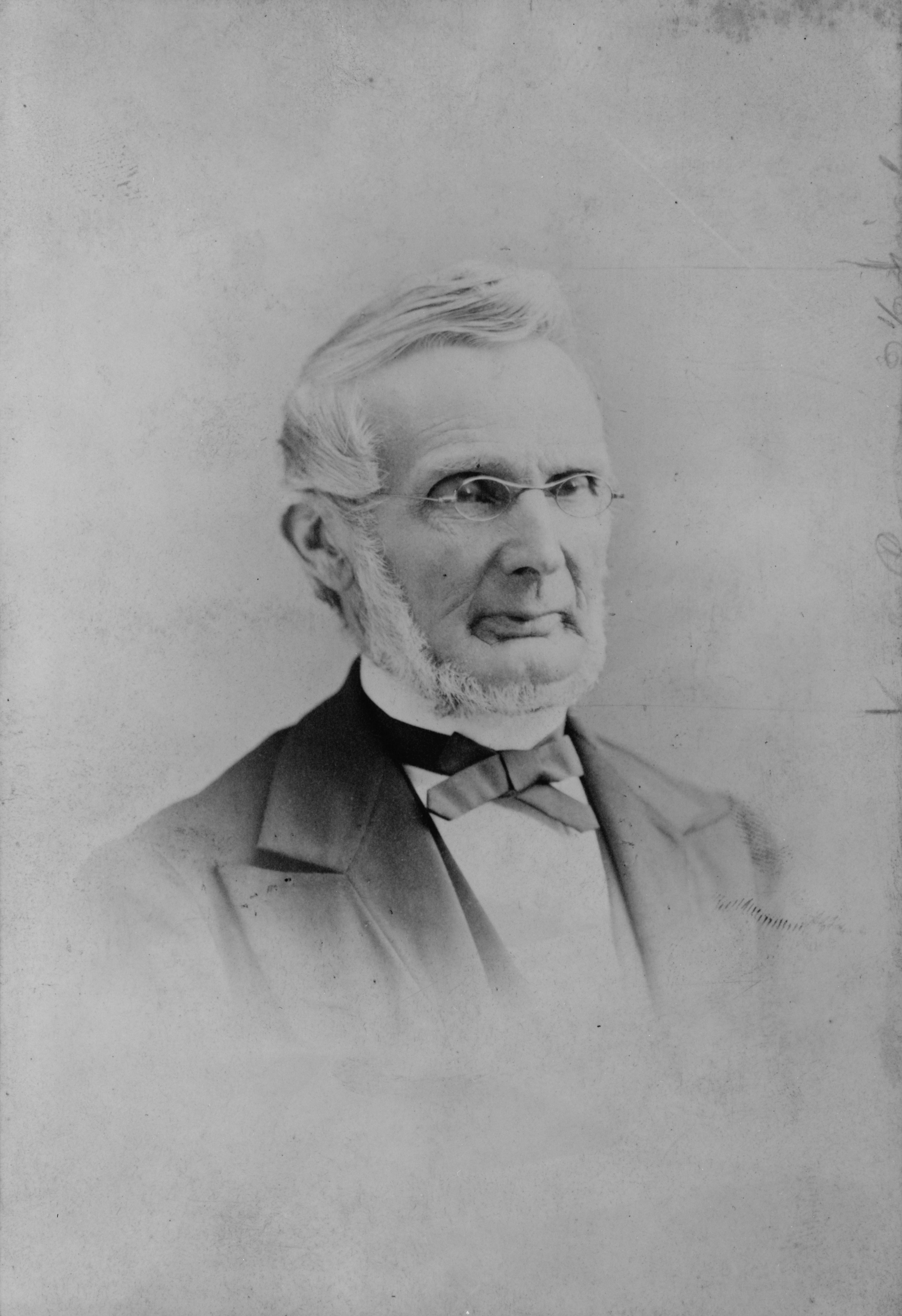 Geologist, geographer, and meteorologist Arnold Henry Guyot, also professor of the same.